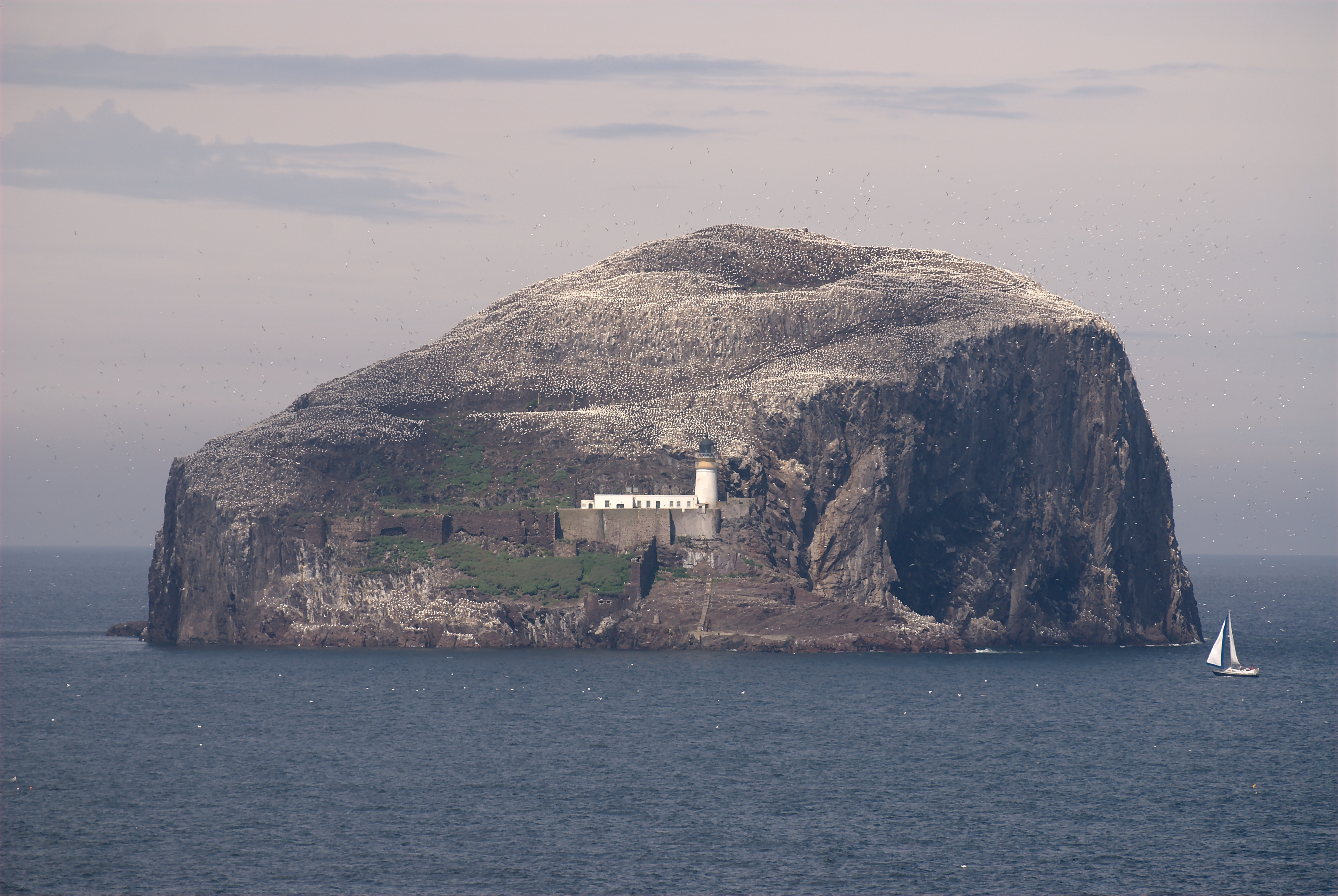 Bass Rock from Tantallon Castle